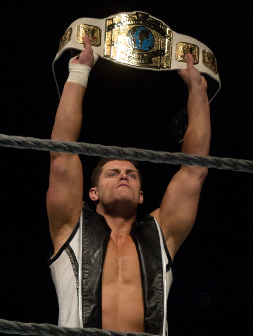 Cody Rhodes as WWE Intercontinental Champion. Taken January 7, 2012 during a WWE SmackDown live event in Montgomery, Alabama.